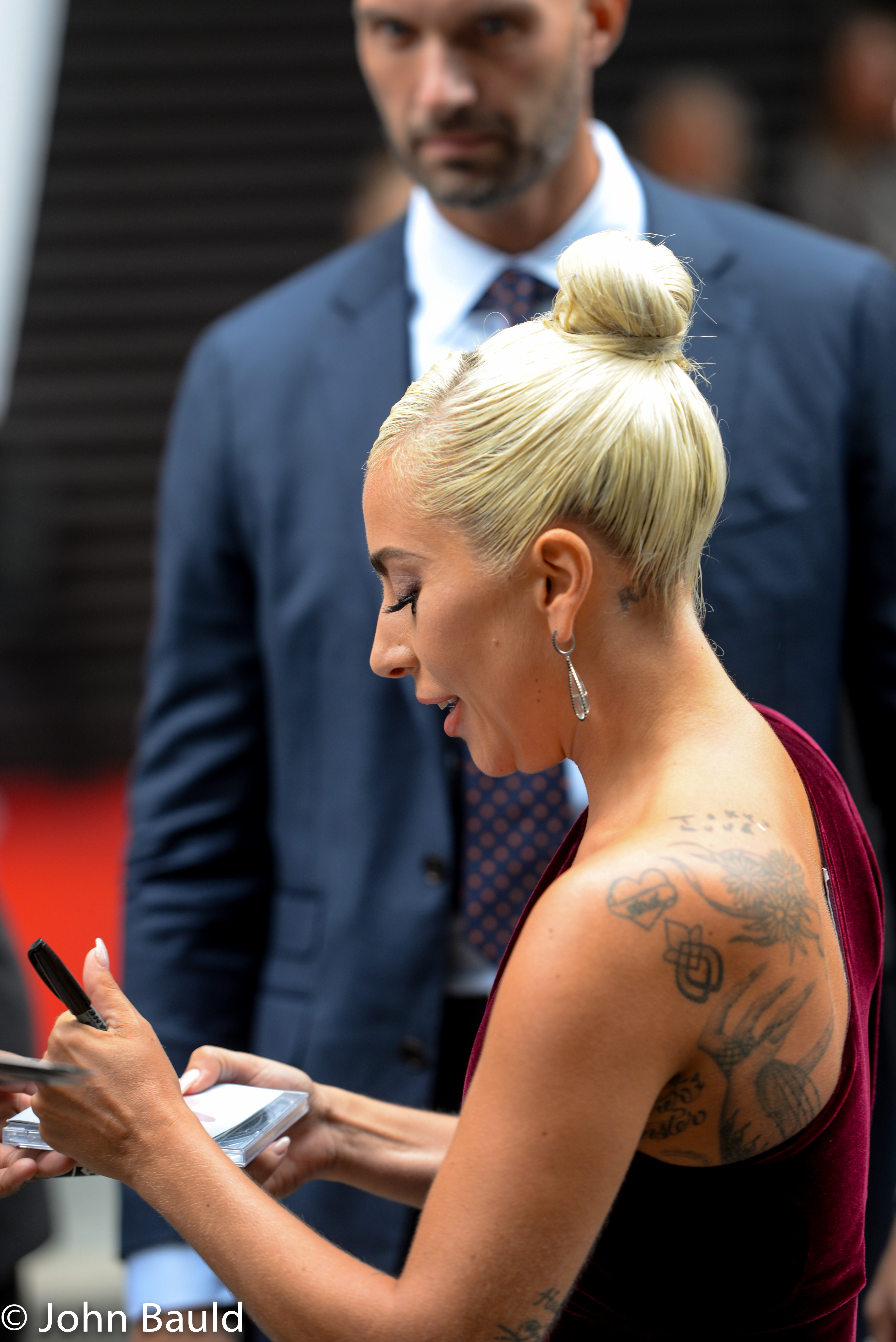 Lady Gaga at the 2018 Toronto International Film Festival